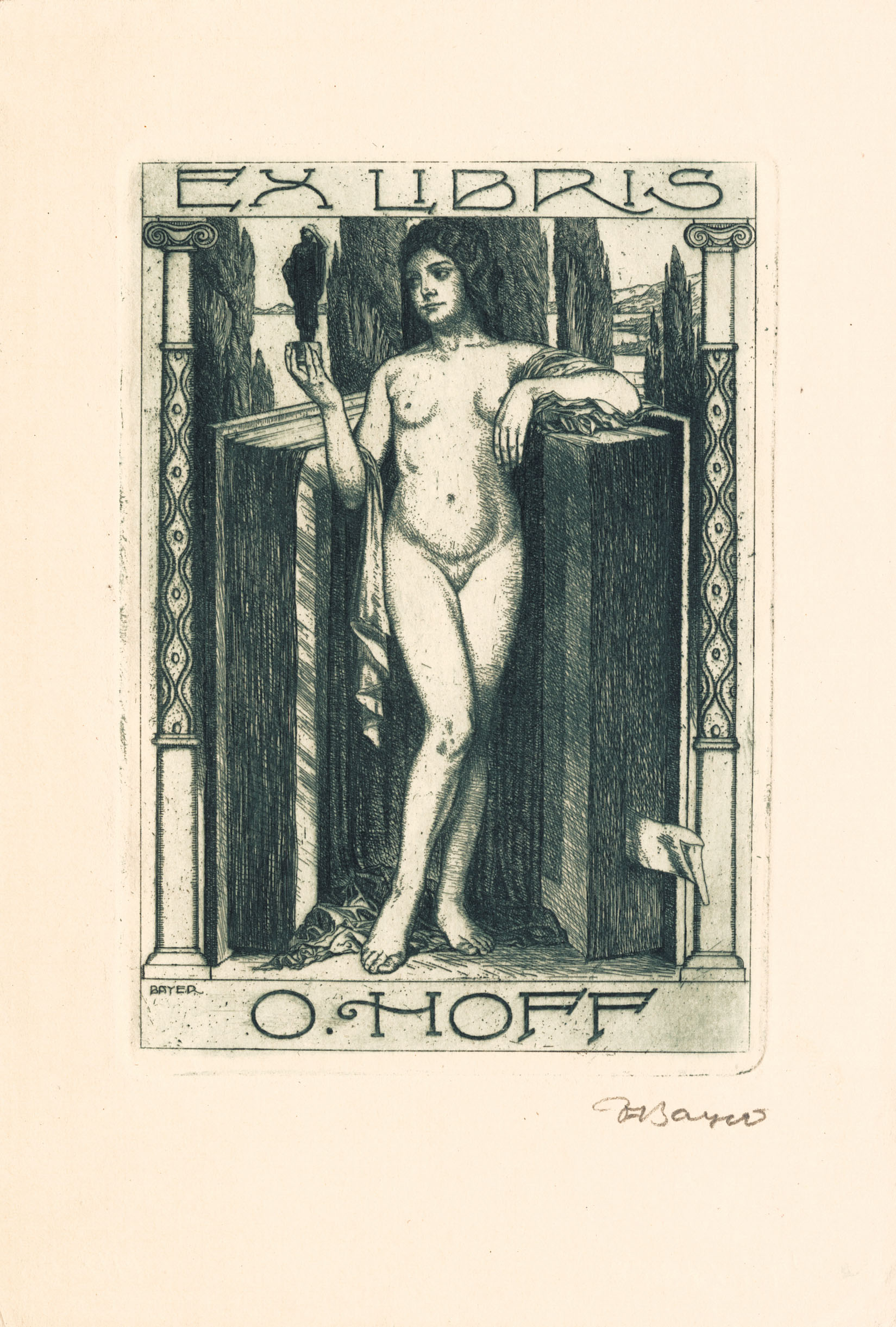 Ex libris O. Hoff